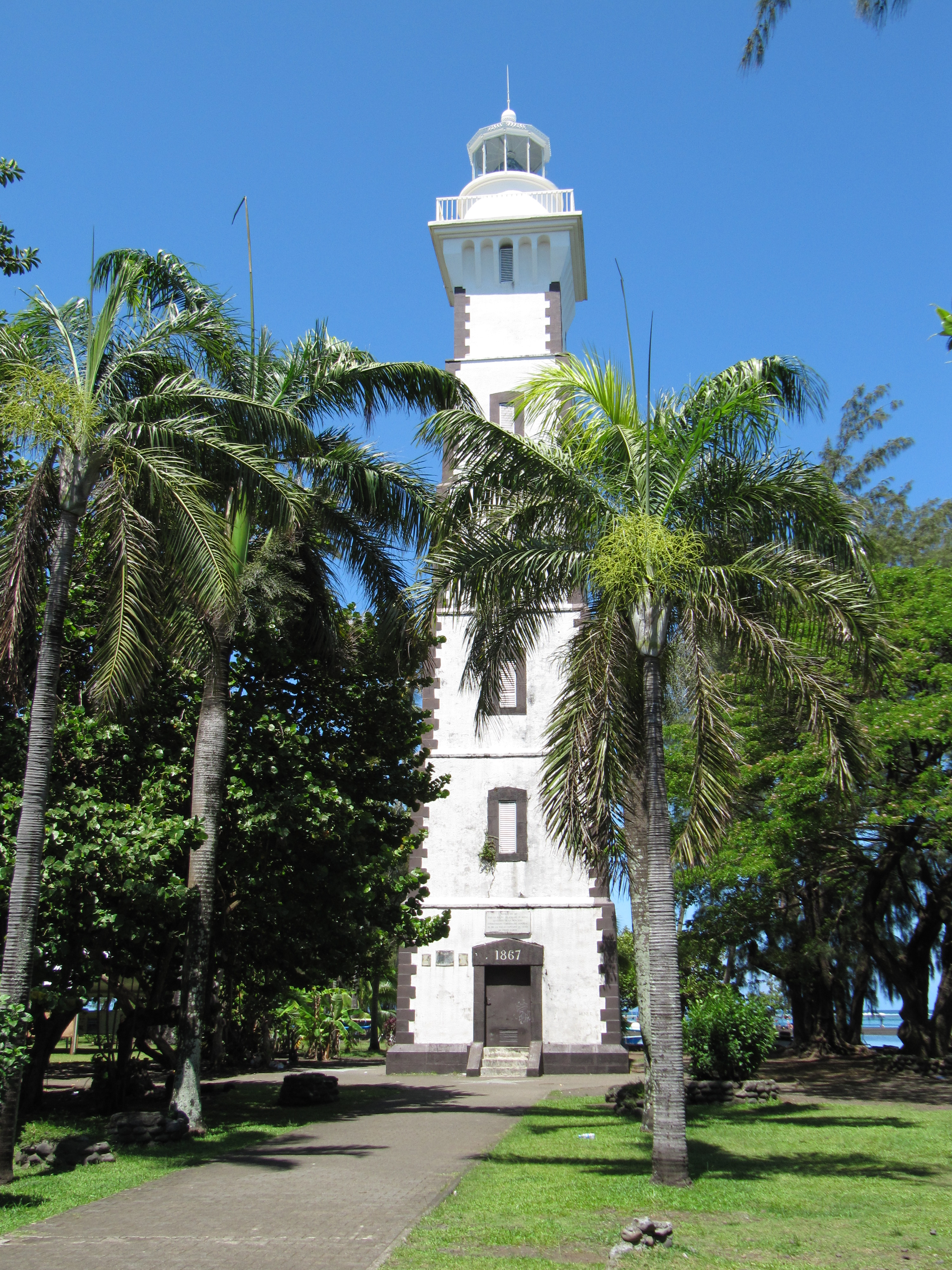 Lighthouse 'Pointe Venus' on Tahiti, French Polynesia